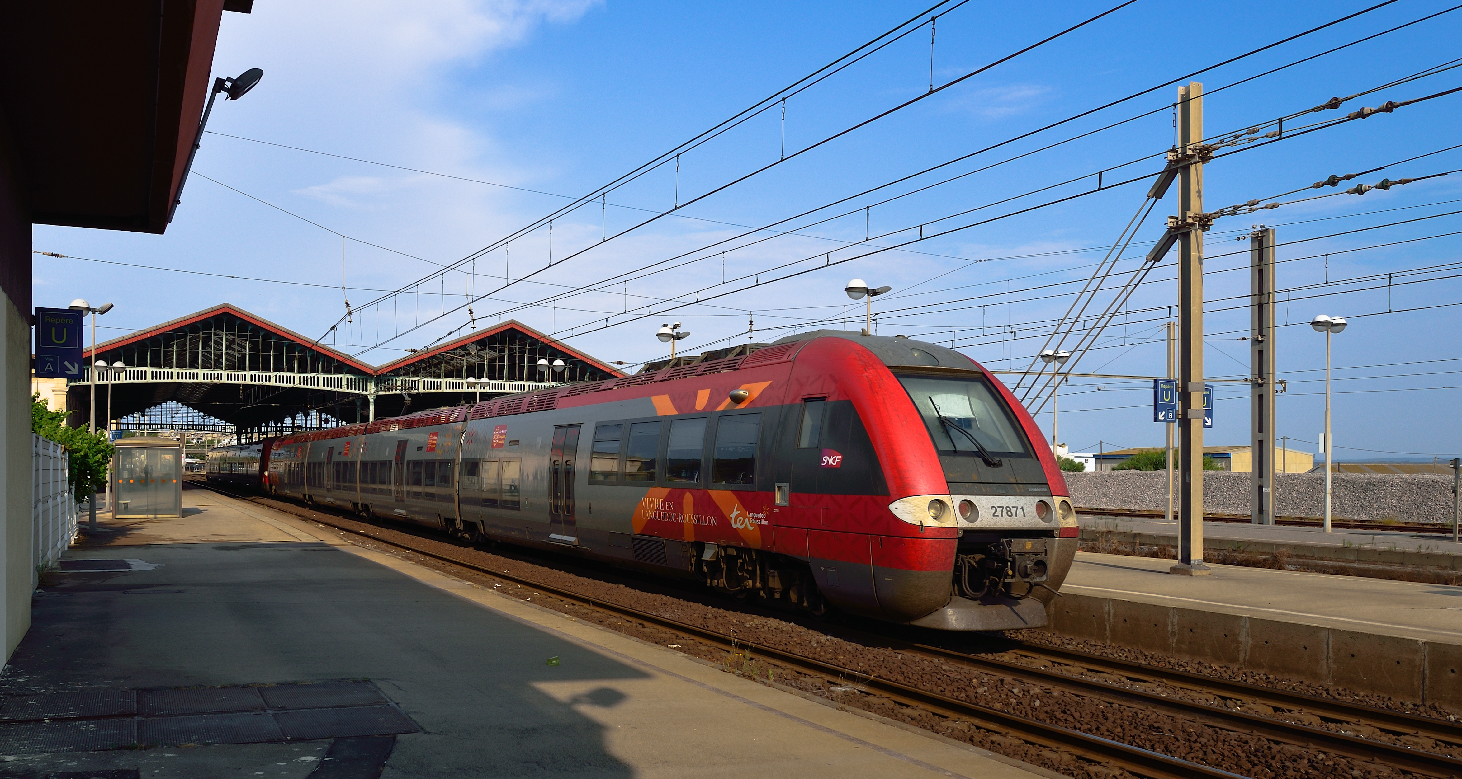 Multiple unit Z 27500 used by SNCF (National society of French railways) and specialised for TER (Regional express transport). Sète railway station, Hérault, France.